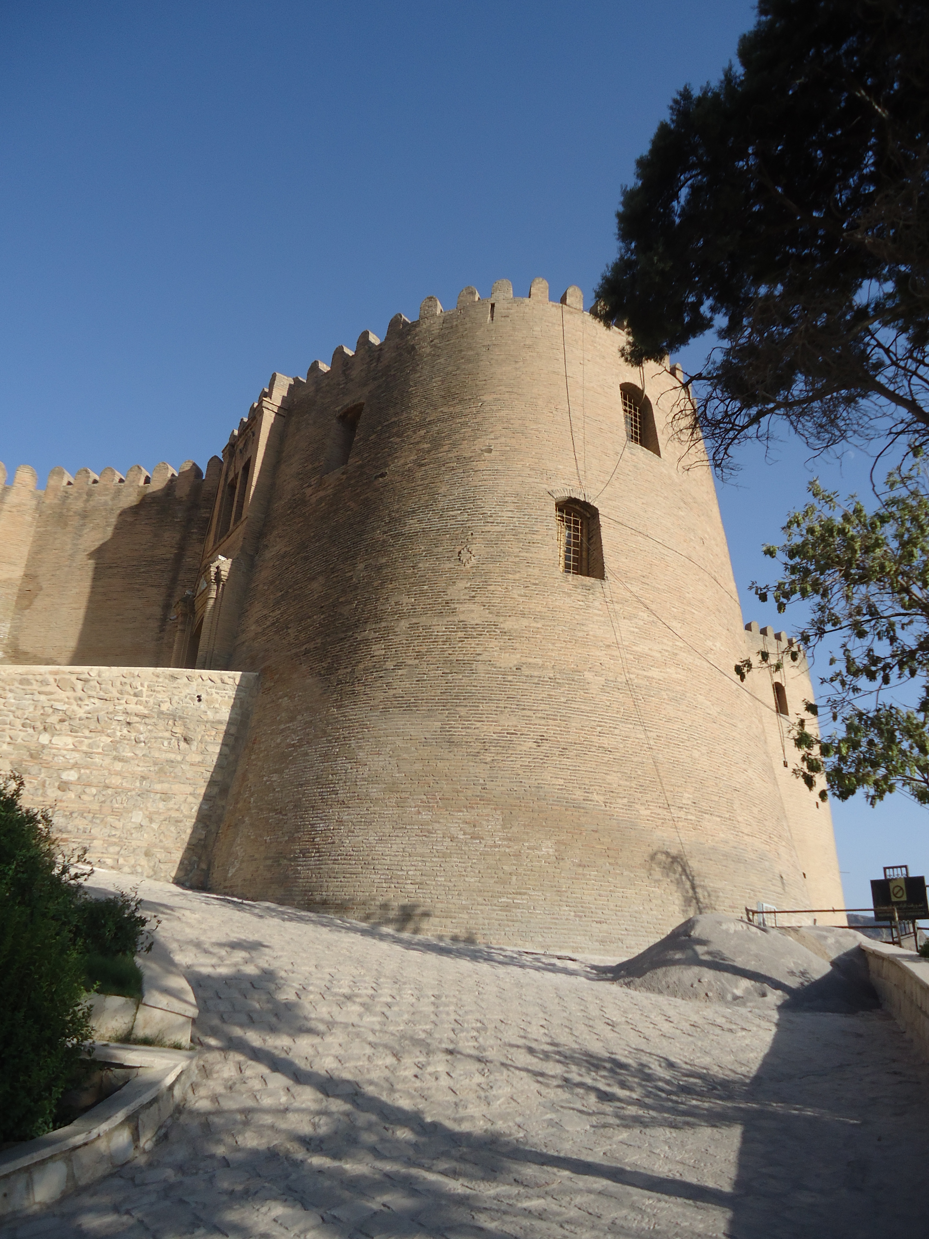 Falak al aflak Castle in khorreanabad